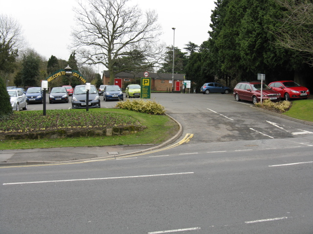 Droitwich - Entrance To Lido Park Situated immediately off Worcester Road, Lido Park is a survivor of the inter-war fashion for outdoor public swimming pools. Droitwich's example is heated, but only open in what passes for summer in England. For more information